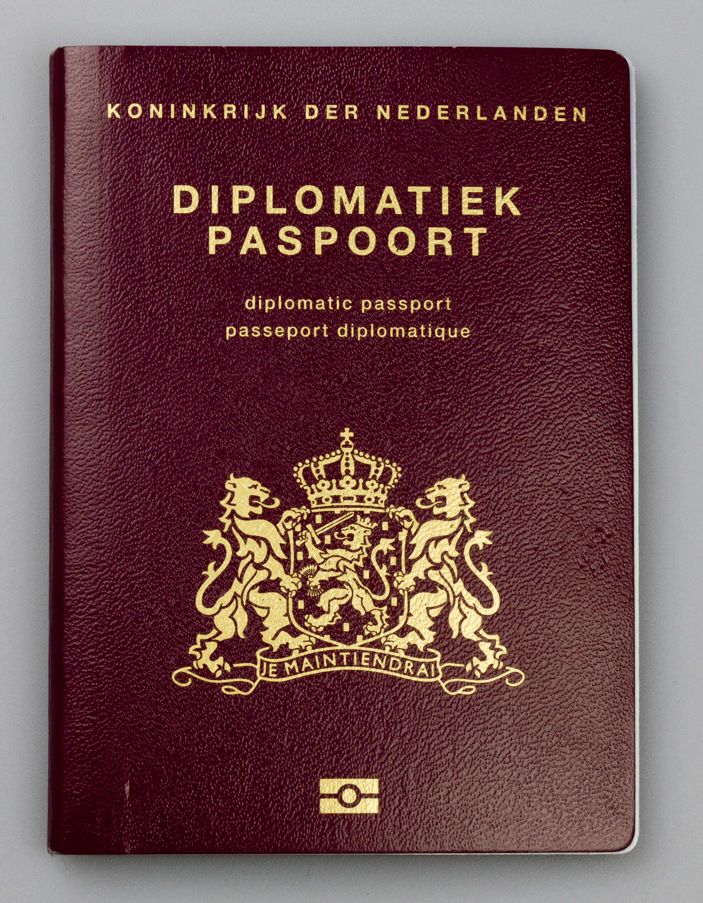 Scan of the cover of a Dutch diplomatic passport